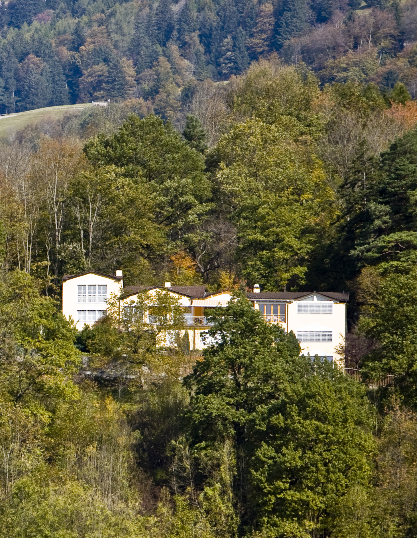 Oskar Werners residence in Triesen (Liechtenstein)